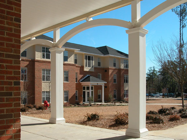 FMU